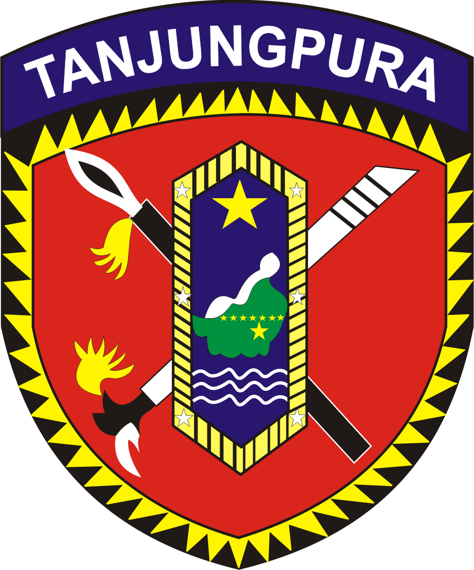 lambang